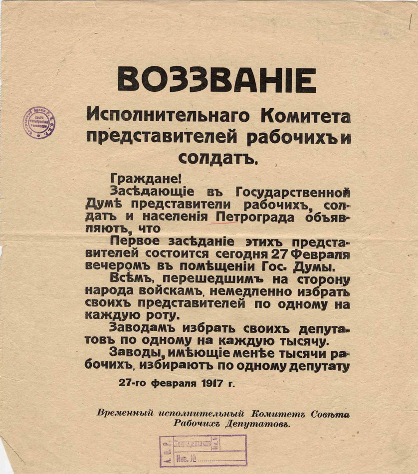 First proklamation of Petrograd Soviet